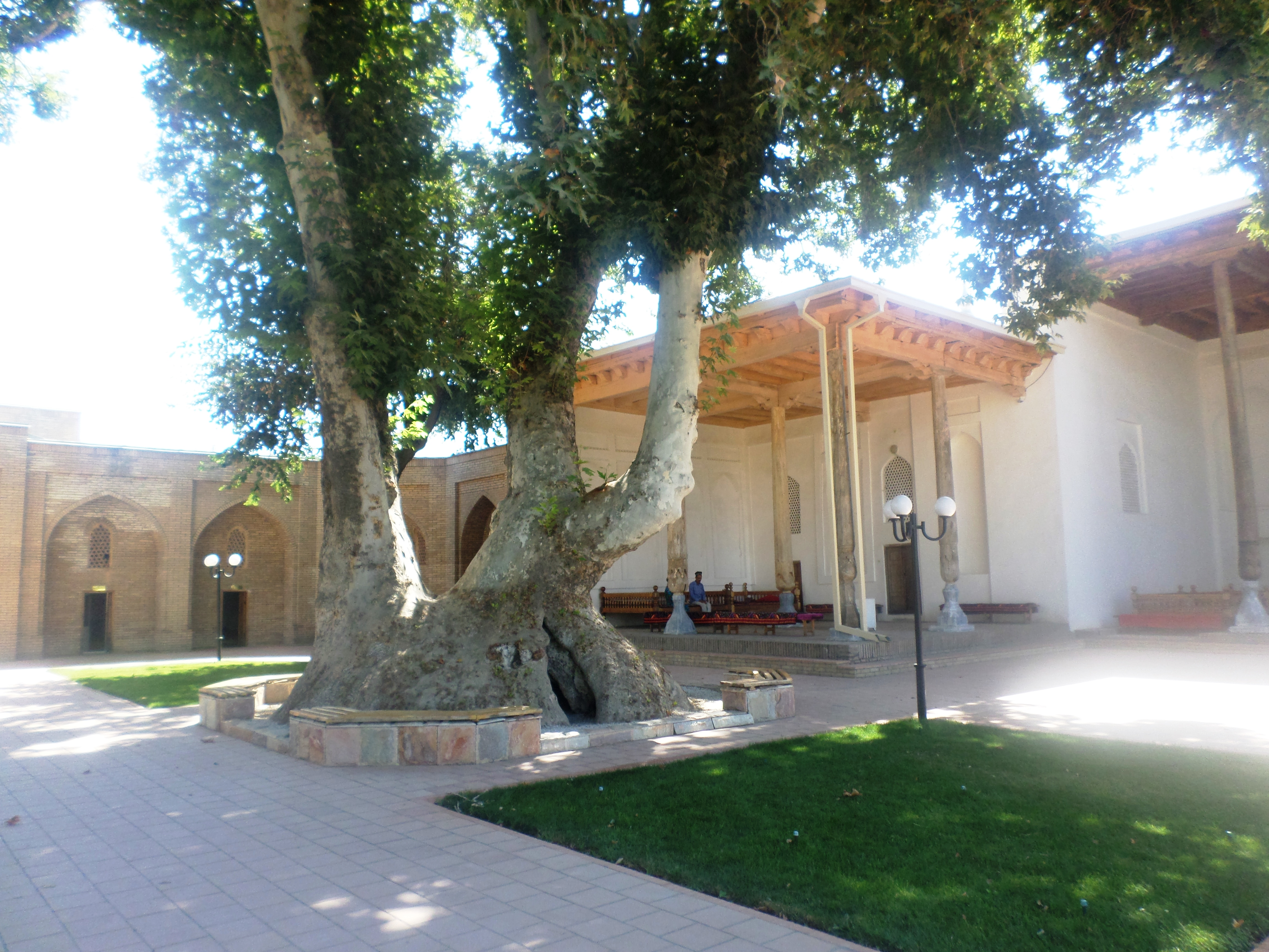 Sights of Samarkand, Makhdumi Azam Mausoleum, 2015